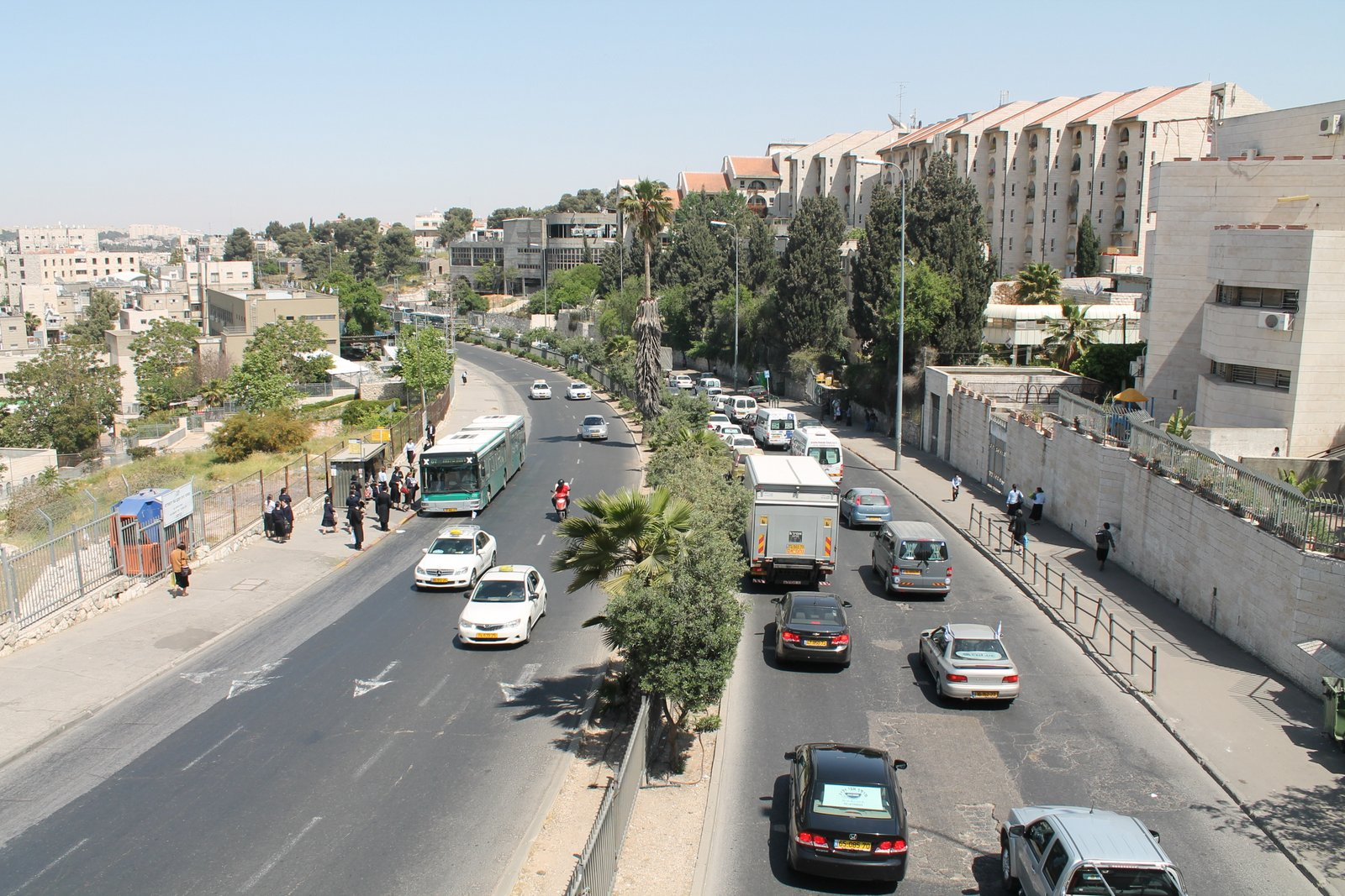 bar ilan